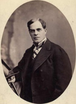 Thomas Barry Sullivan, Australian actor